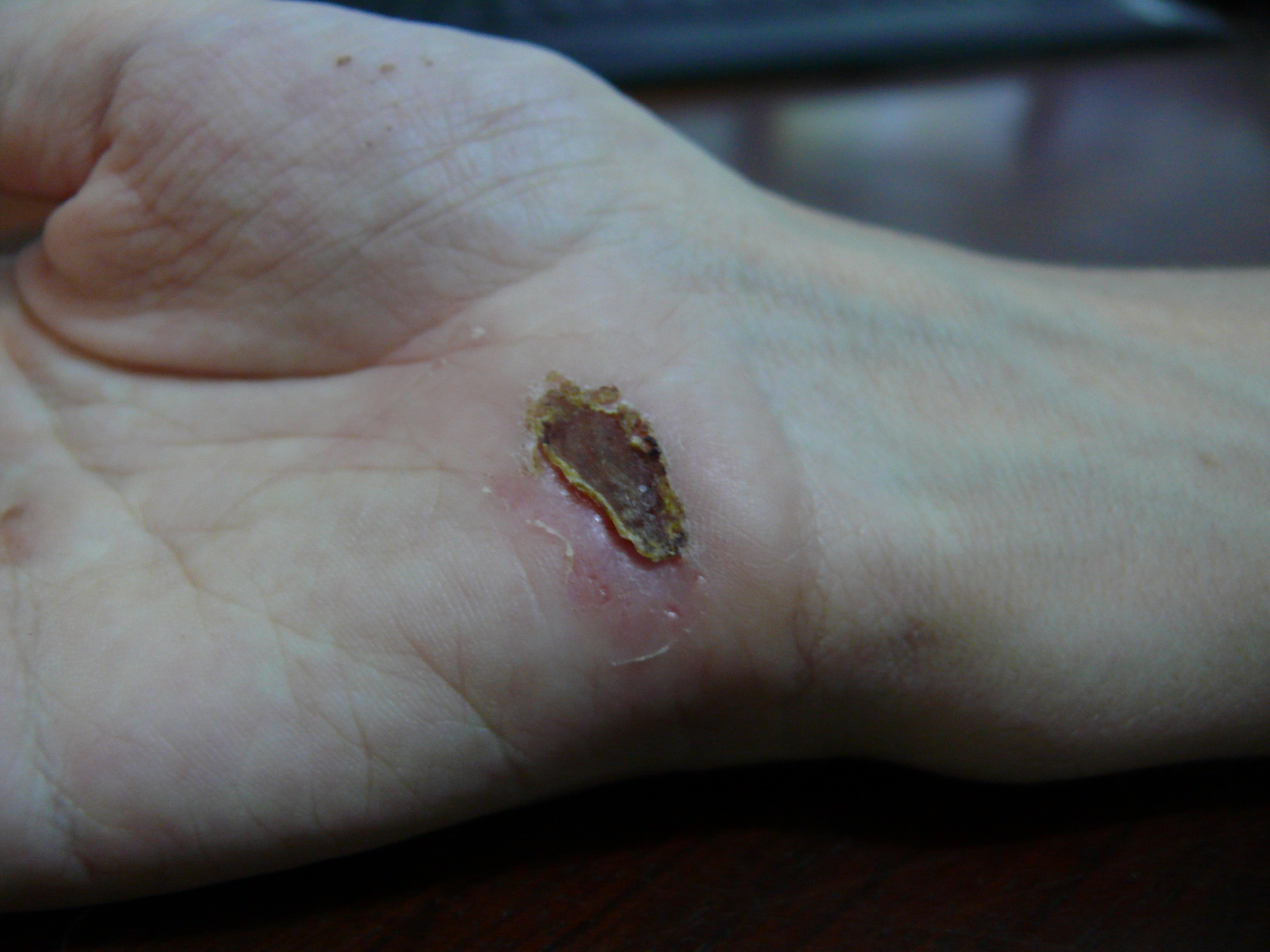 Wound on palm of hand 12 days after falling off a bike onto concrete. Previous photos: Day 1: Image:Wound on palm of hand.jpg Day 2: Image:Wound on palm of hand - day 2.jpg Day 3: Image:Wound on palm of hand - day 3.jpg Day 4: Image:Wound on palm of hand - day 4.jpg Day 5: Image:Wound on palm of hand - day 5.jpg Day 6: Image:Wound on palm of hand - day 6.jpg Day 7: Image:Wound on palm of hand - day 7.jpg Day 8: Image:Wound on palm of hand - day 8.jpg Day 9: Image:Wound on palm of hand - day 9.jpg Day 10: Image:Wound on palm of hand - day 10.jpg Day 11: Image:Wound on palm of hand - day 11.jpg Following photos: Day 13: Image:Wound on palm of hand - day 13.jpg Day 14: Image:Wound on palm of hand - day 14.jpg Day 15: Image:Wound on palm of hand - day 15.jpg Day 16: Image:Wound on palm of hand - day 16.jpg Day 17: Image:Wound on palm of hand - day 17.jpg Day 18: Image:Wound on palm of hand - day 18.jpg Day 19: Image:Wound on palm of hand - day 19.jpg Day 20: Image:Wound on palm of hand - day 20.jpg